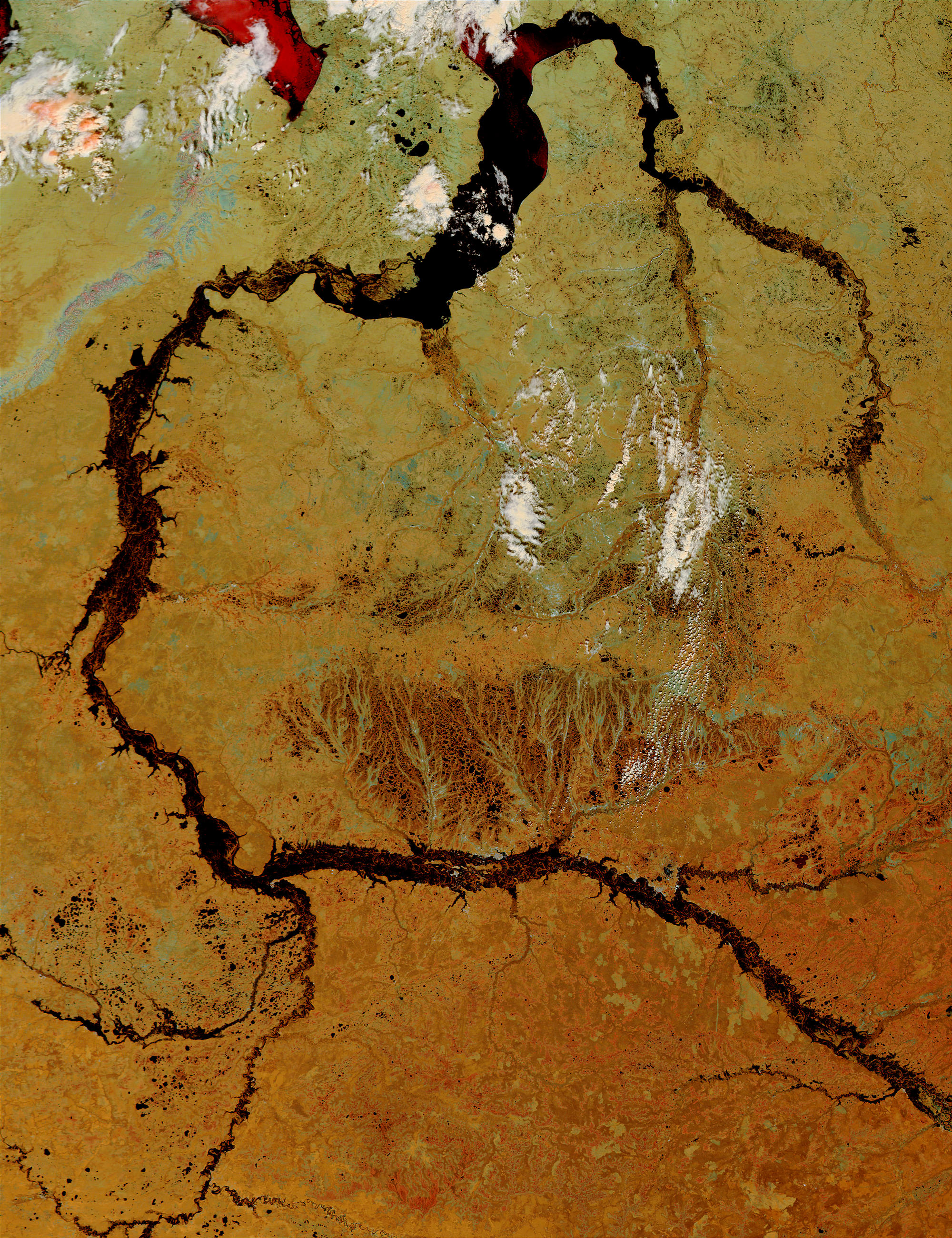 FLOODING OF THE OB AND TAZ RIVERS, RUSSIA. July 2, 2002